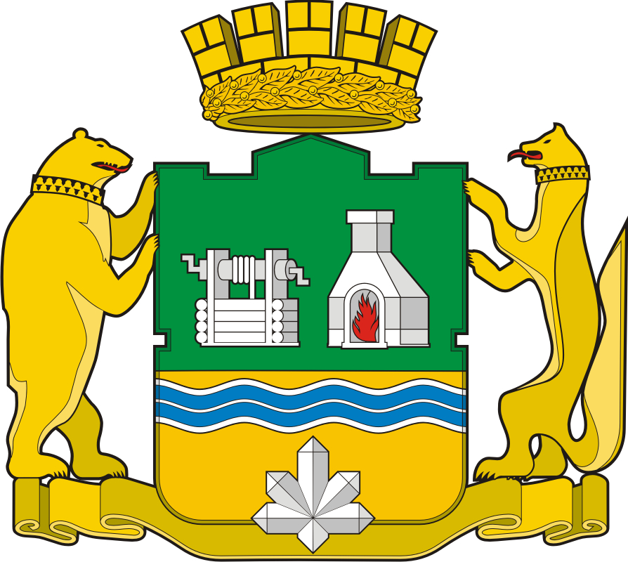 Yekaterinburg (Sverdlovsk oblast), coat of arms (1998) with crown